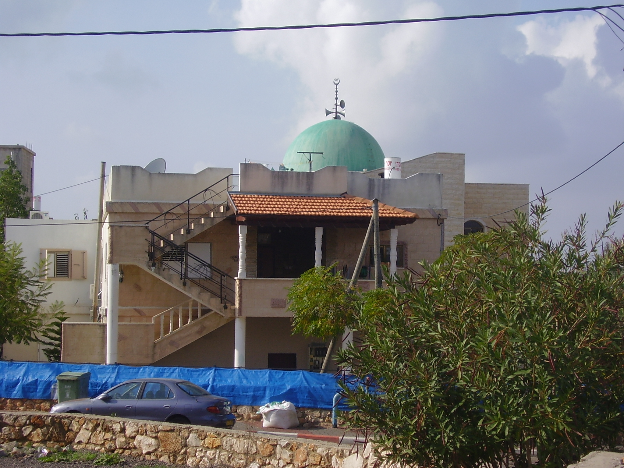 mosque in arab al aramsha village, israel המסגד בכפר ערב אל עראמשה